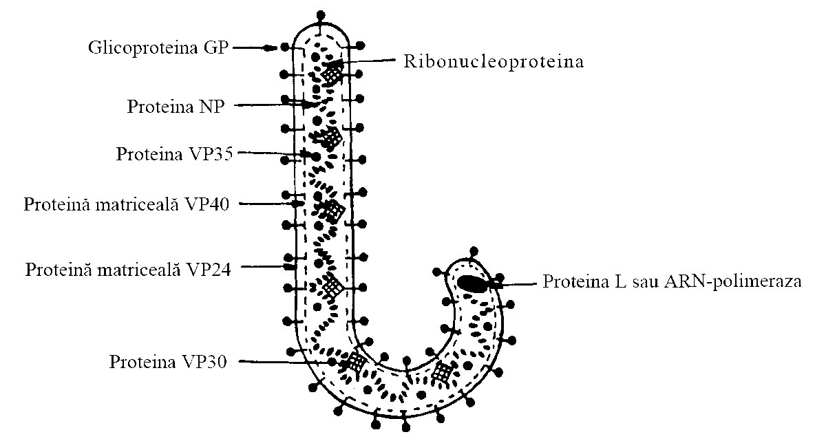 Ebola virus structure